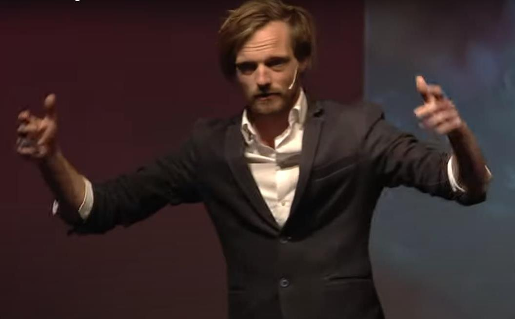 In een muzikale voorstelling vertelt Rikko over de reis die hij en Mensenkinderen maakten naar Cambodja, als ambassadeurs van Tear. Om mee te helpen...maar wie helpt wie eigenlijk?